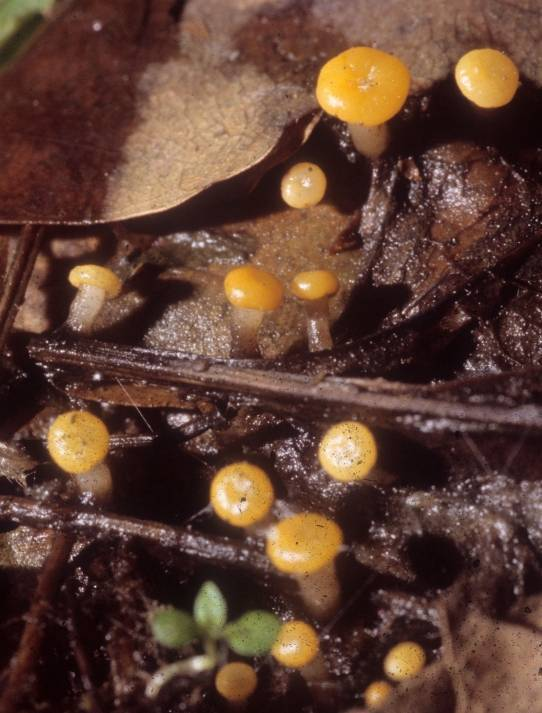 Fruit bodies of the fungus Vibrissea truncorum (Alb. & Schwein.) Fr. "Notes: On wet leaves in drying woodland pool." Specimen observed in Pinebrook Preserve, Montville, Ohio, USA.